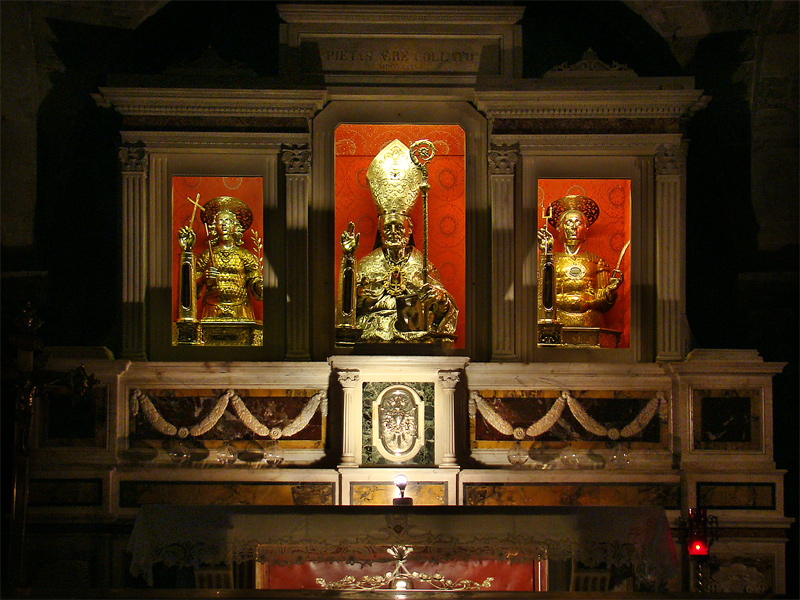 Cocathedral of San Pietro Apostolo, Bisceglie, Apulia, Italy. Altar in the crypt.